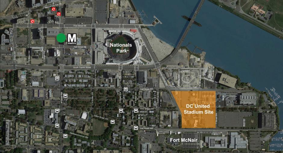 Aerial view of the proposed D.C. United Stadium relative to Nationals Park and Navy Yard metro station.